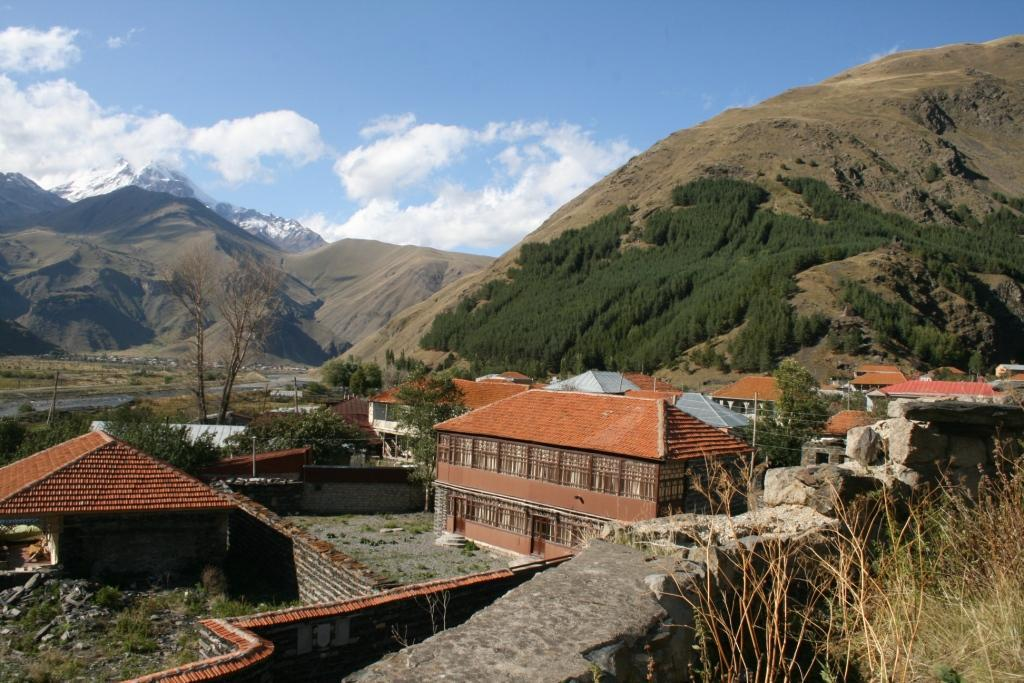 Old houses in the village of Sno, Georgia, with Mt. Kazbek in the left background. View from the Sno fortress.